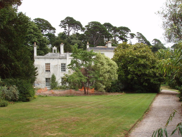 Greenway House. This house by the River Dart was once the home of Agatha Christie. It was built in around 1700, but has been much expanded and altered. The gardens belong to the National Trust and are open to the public. See their web page for the history of the house and garden.